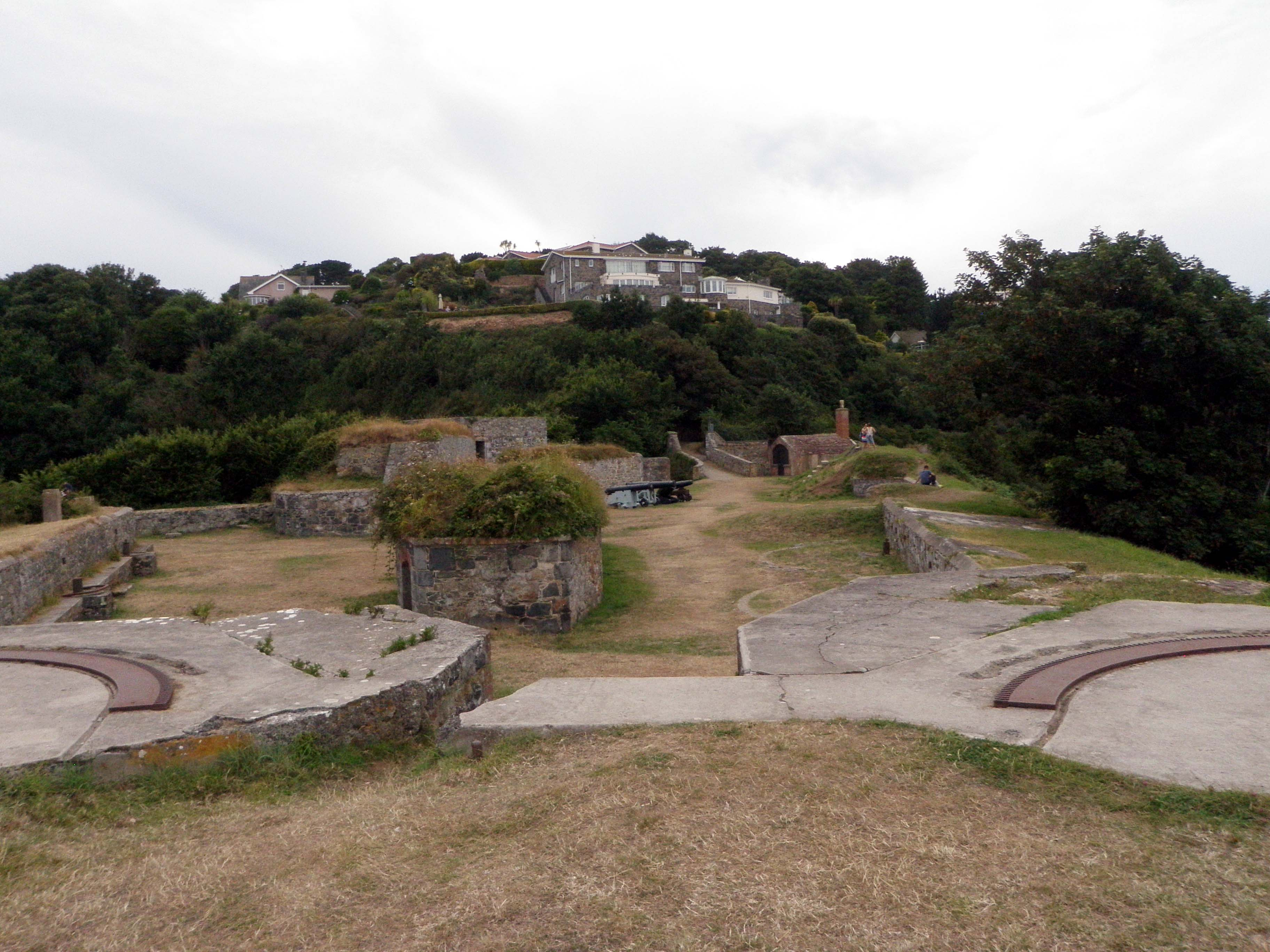 View of from Clarence Battery of Fort George, Saint Peter Port, Guernsey. In the hills above the preserved battery can be seen some of the luxury housing that was built on most of the original fort area.